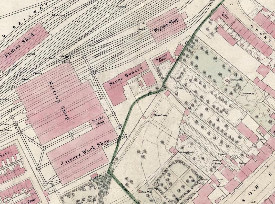 Extract of Ordnance Survey town plan for York. Sheet 11 Survey of 1851 Some retouching Full map at "Sheet 11: Plan of York, 1852 " [1]